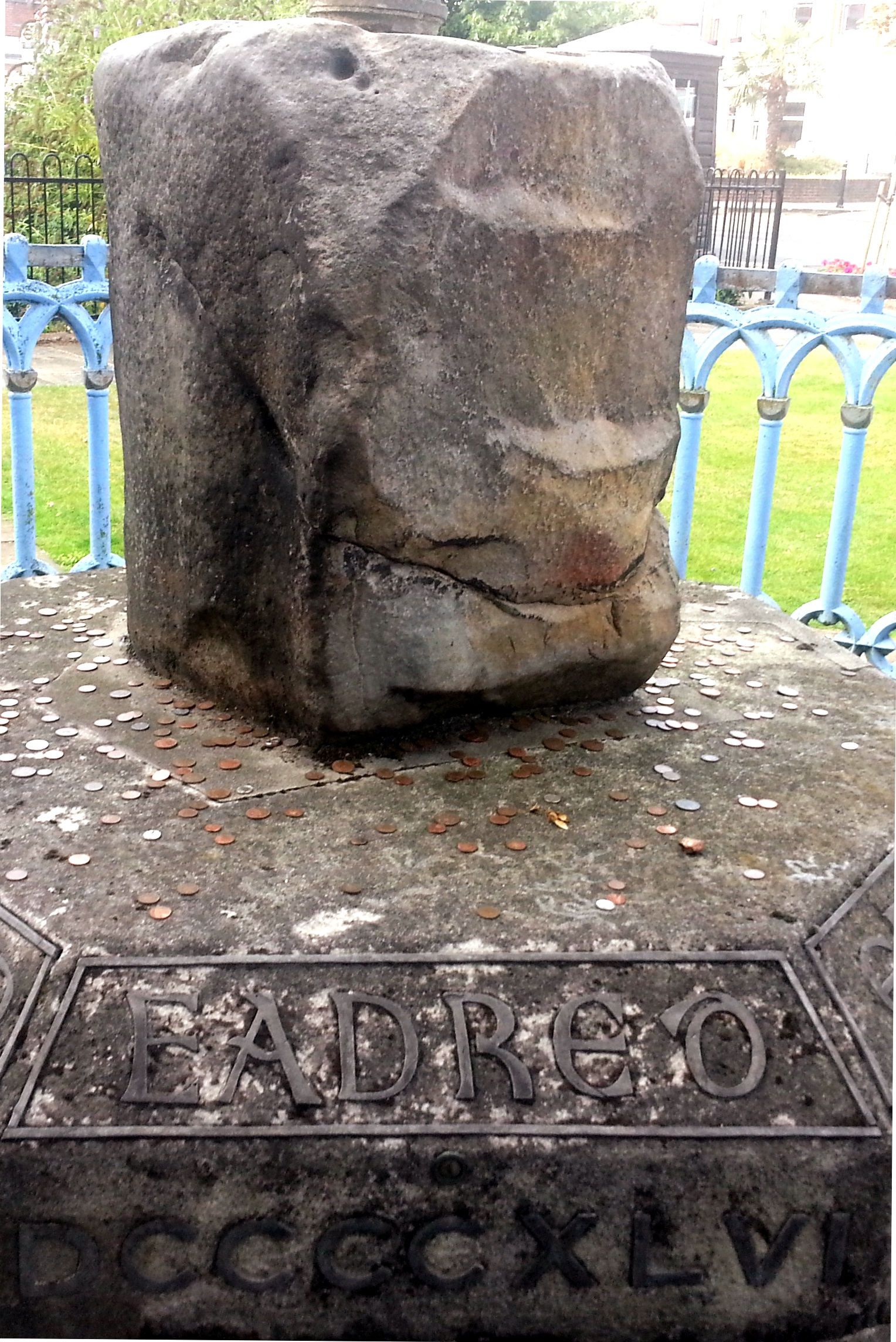 Eadred on the Coronation Stone